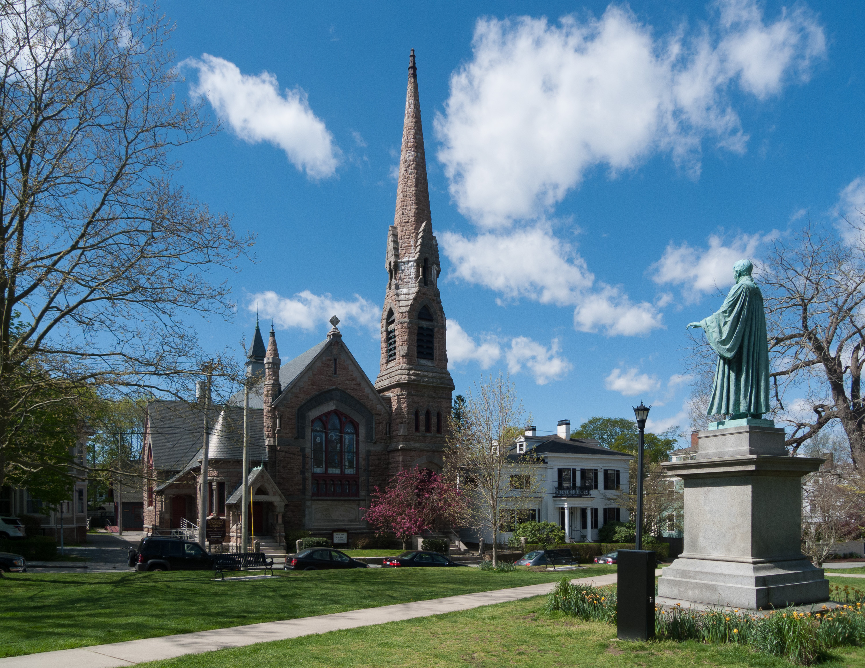 William Ellery Channing statue, Touro Park, Newport, Rhode Island